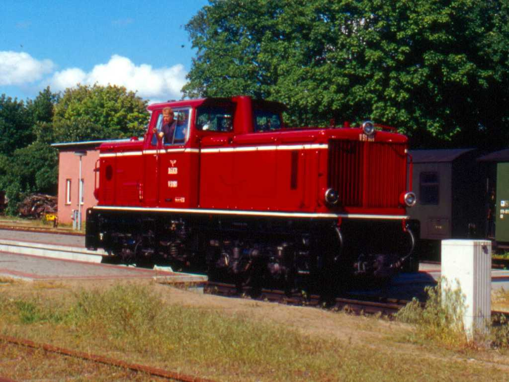 narrow gauge diesel locomotive V51 901 of Rügen'sche Kleinbahn – former V 251 901 of Deutsche Bundesbahn – in Putbus.